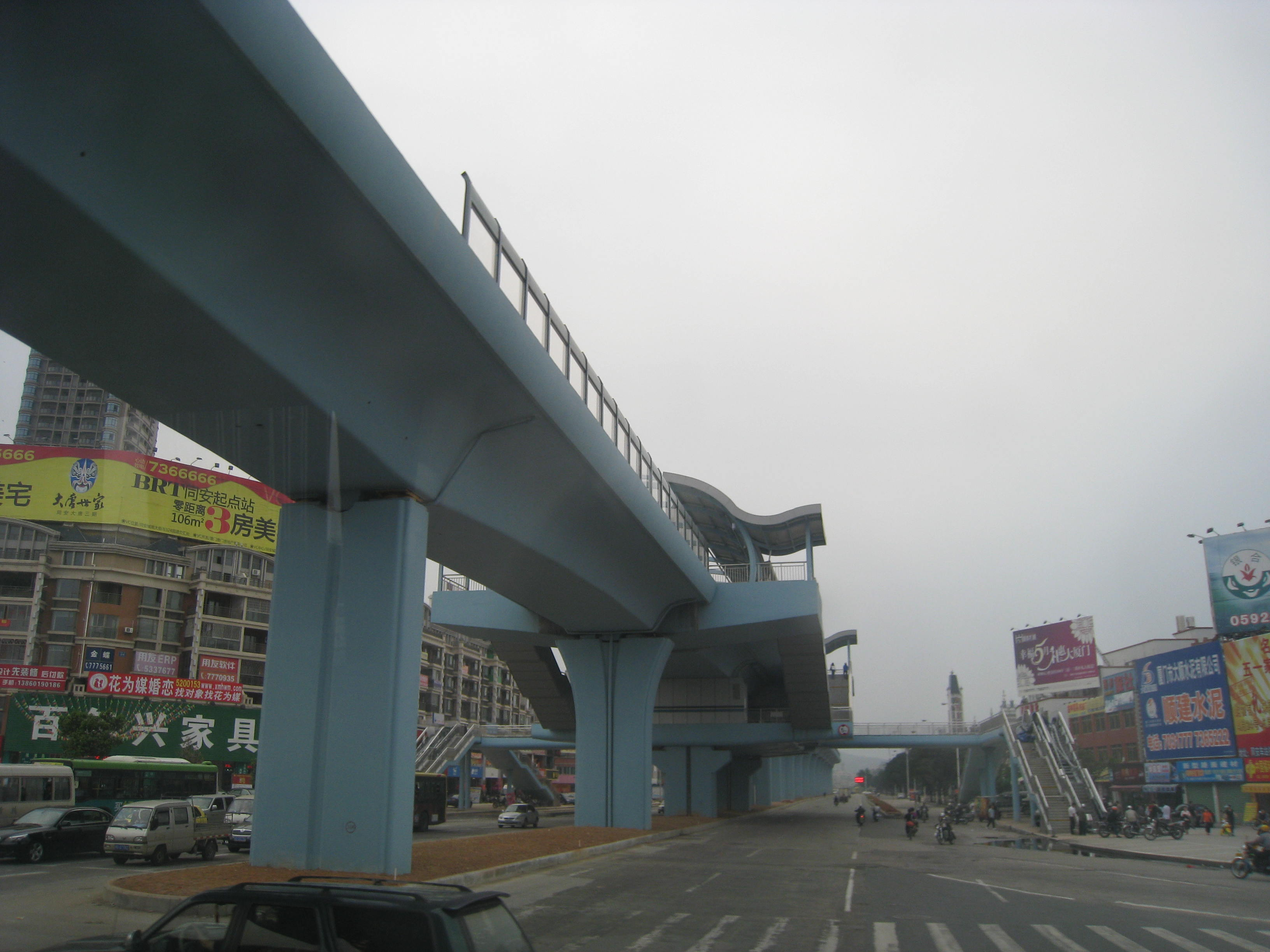 Xiamen BRT Tongan Extension